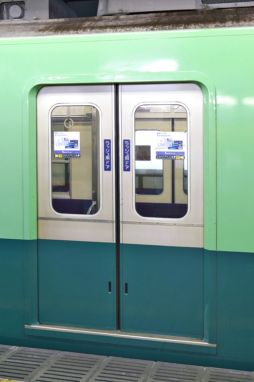 Extra doors for rush hour, of Keihan 5000 Series EMU.